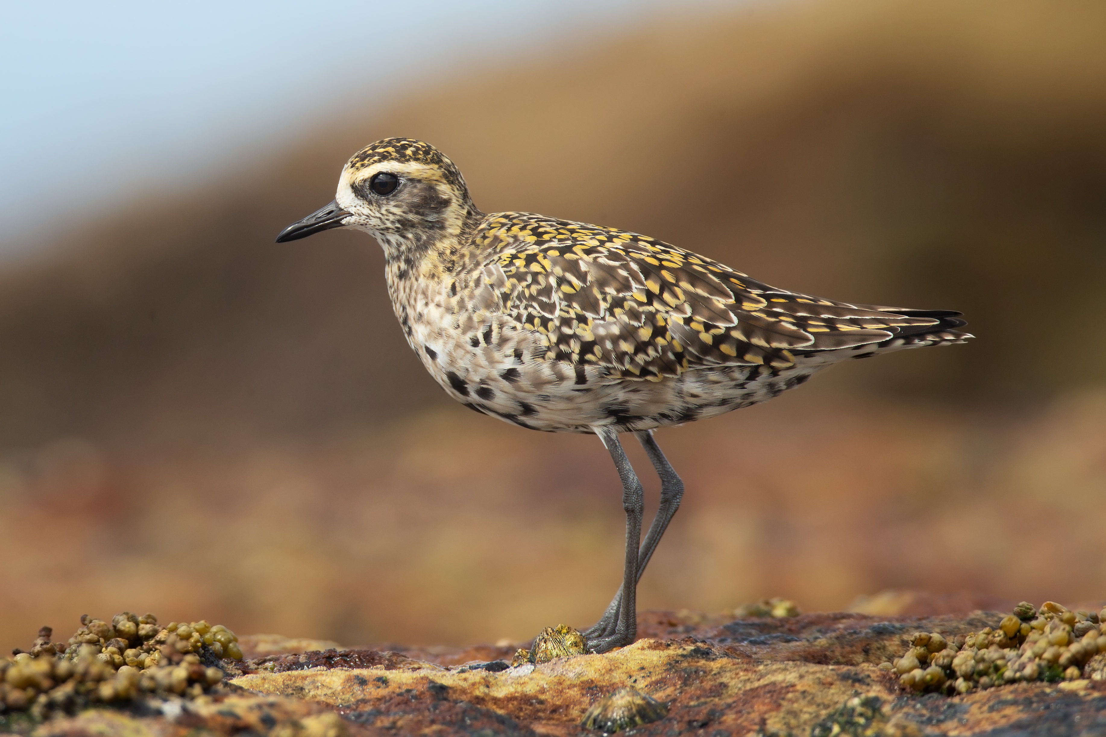 Pacific Golden Plover (Pluvialis fulva), Boat Harbour, New South Wales, Australia